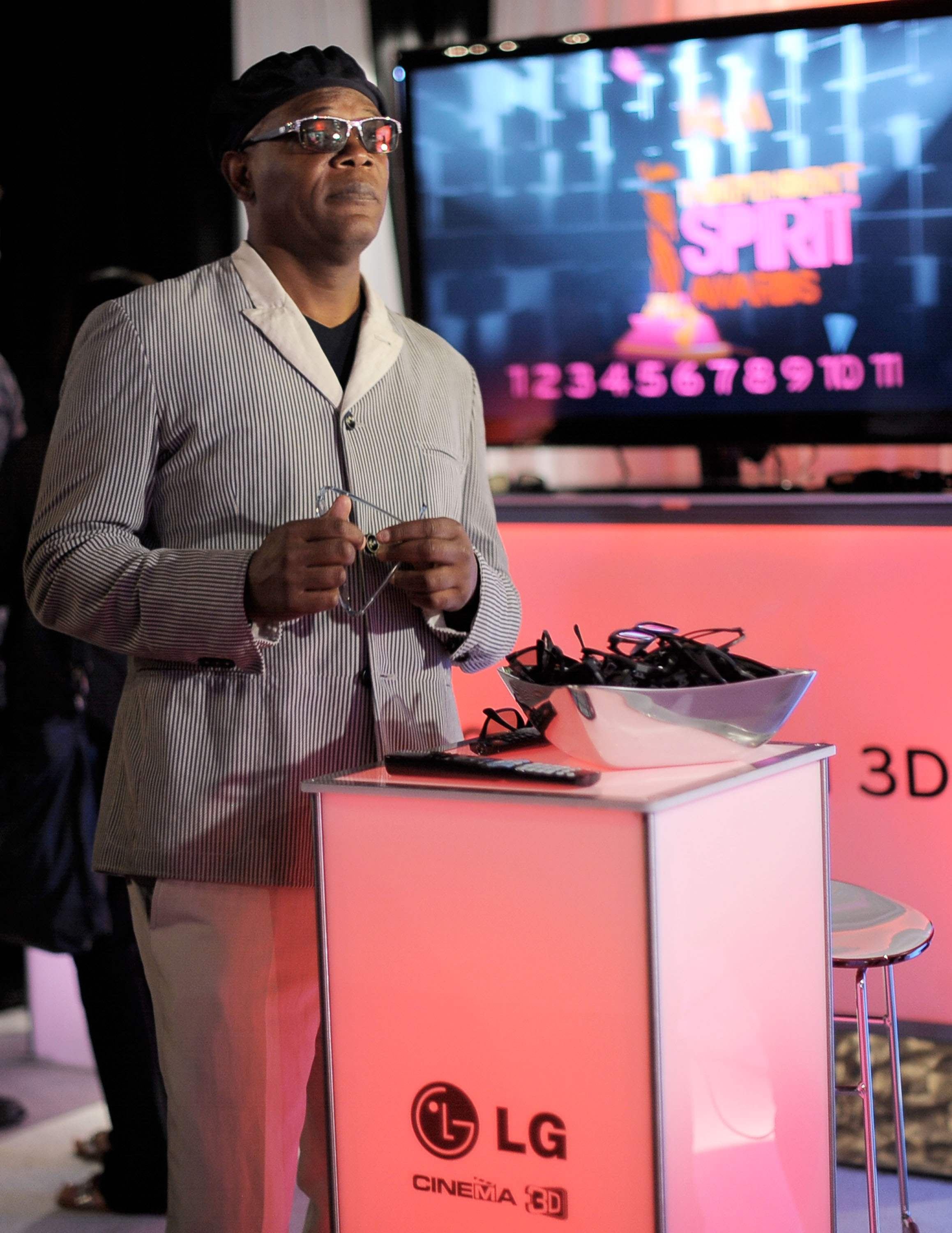 Samuel L. Jackson at 2011 Independent Spirit Awards.